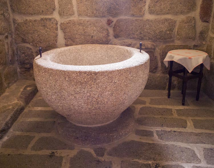 Antigua pila bautismal. Iglesia parroquial de Nuestra Señora del Monte.